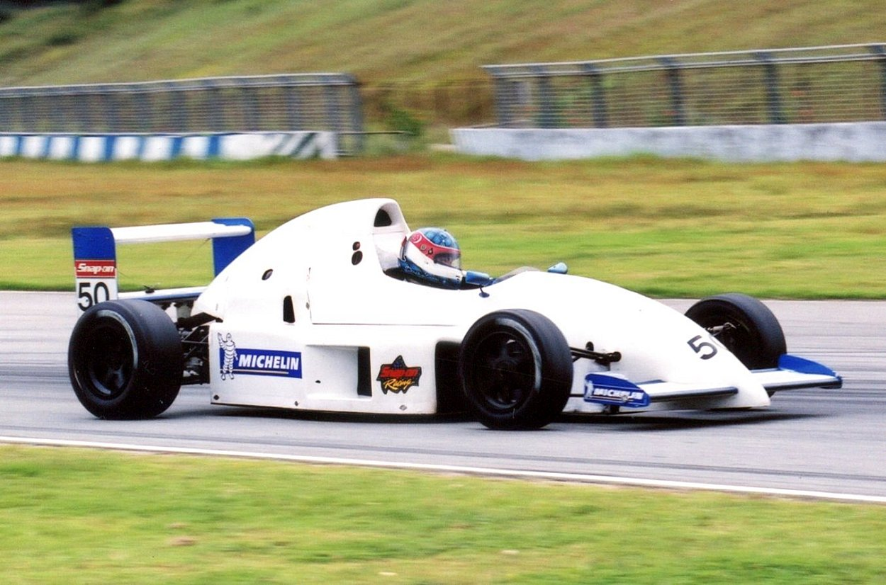 Singaporean racing driver Denis Lian driving his Formula Asia race car at the Zhuhai International Circuit. He was the 2002 Formula Asia champion.